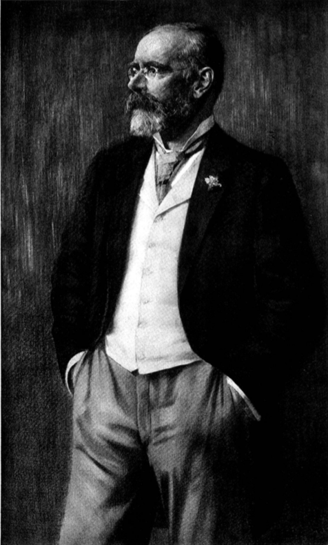 Sir Henry (Heinrich) Angst, KCMG, british-swiss diplomat and museum director